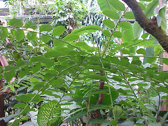 Species: Phyllanthus juglandifolius Family: Euphorbiaceae Image No. 2